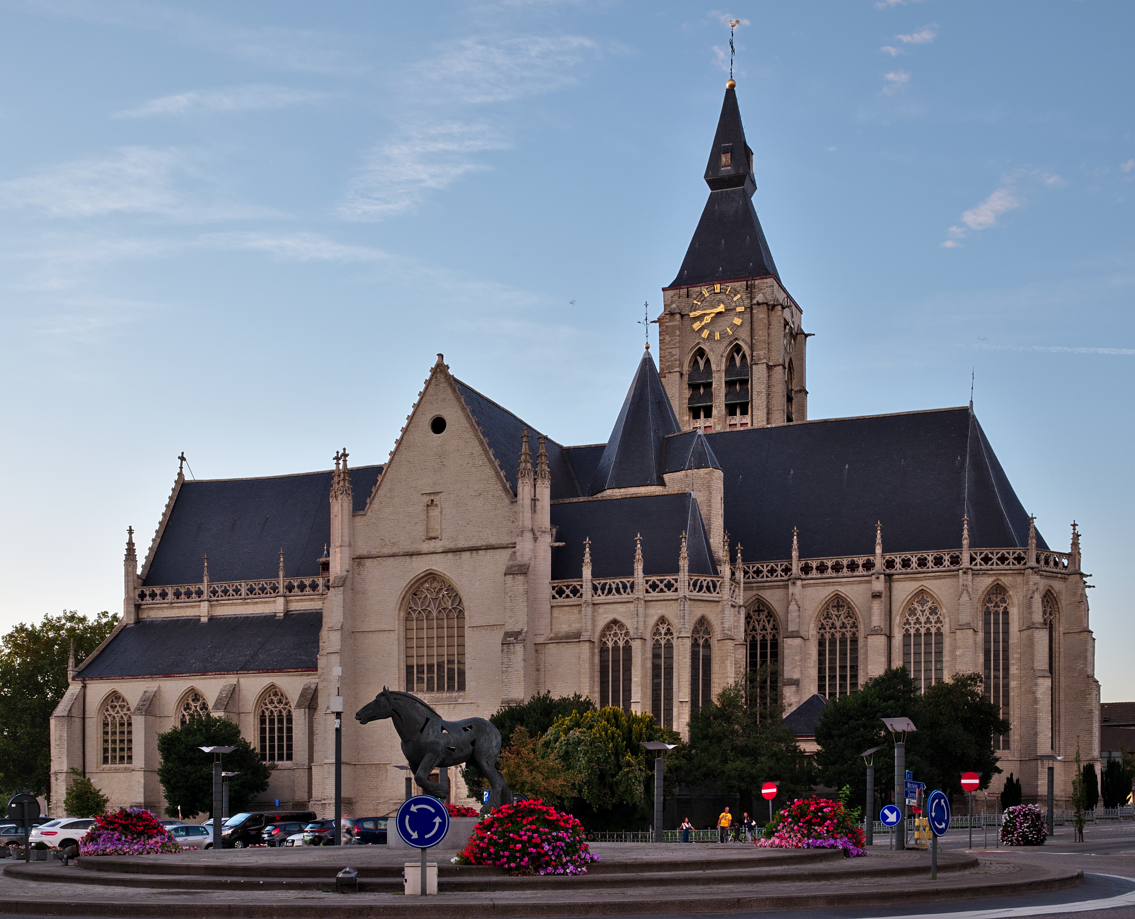 Onze-Lieve-Vrouw van Goede Hoopkerk church and the horse monument by Rik Poot during golden hour in Vilvoorde, Belgium This photo of immovable heritage has been taken in the Flemish Region